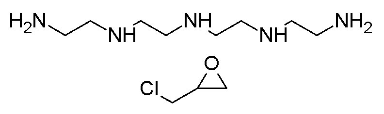 Chemical structure of the constituents of colestipol: tetraethylenepentamine (top) and epichlorohydrin (bottom). (Other sources give diethylenetriamine instead of tetraethylenepentamine.)